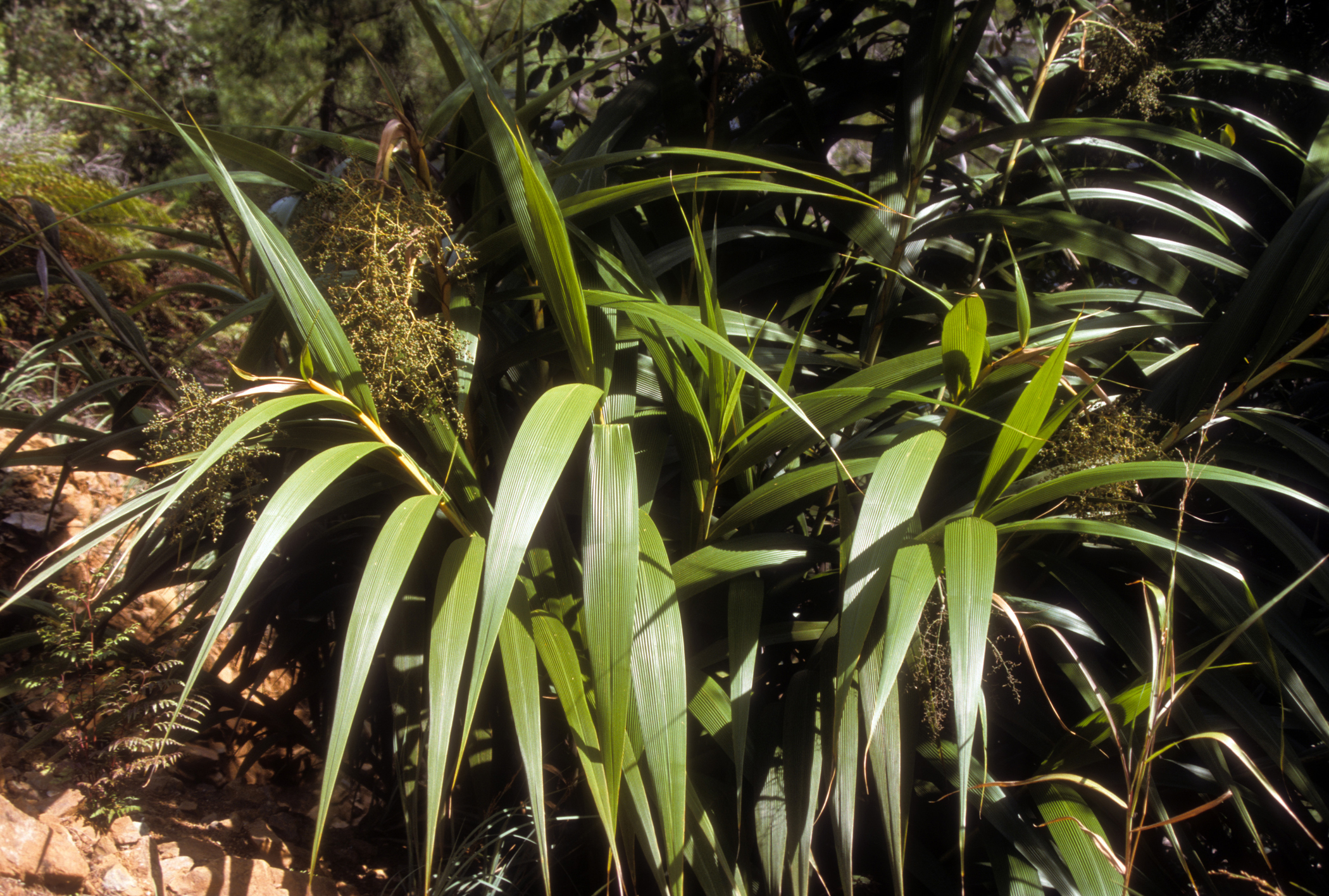 Mt. Dzumac, New Caledonia. Sep 2000.